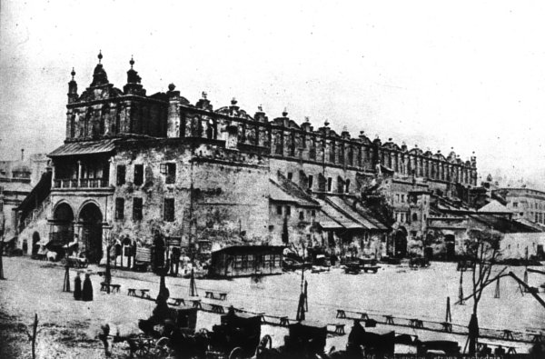 Cloth hall in Cracow in 1873